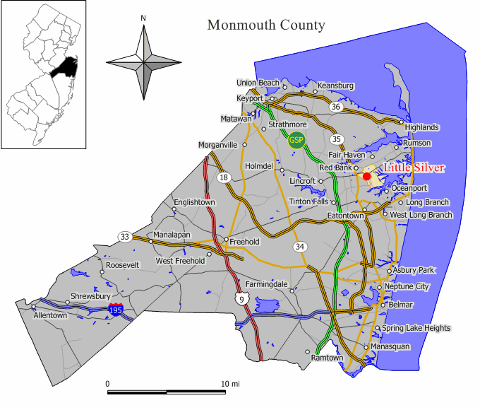 Source: Jim Irwin